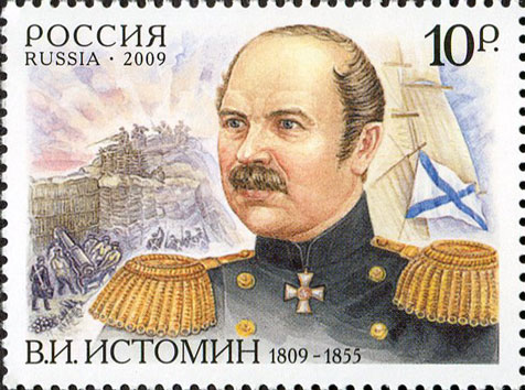 200th Anniversary of the Birth of Vladimir Istomin, hero of the Sevastopol Defence 1854-1855